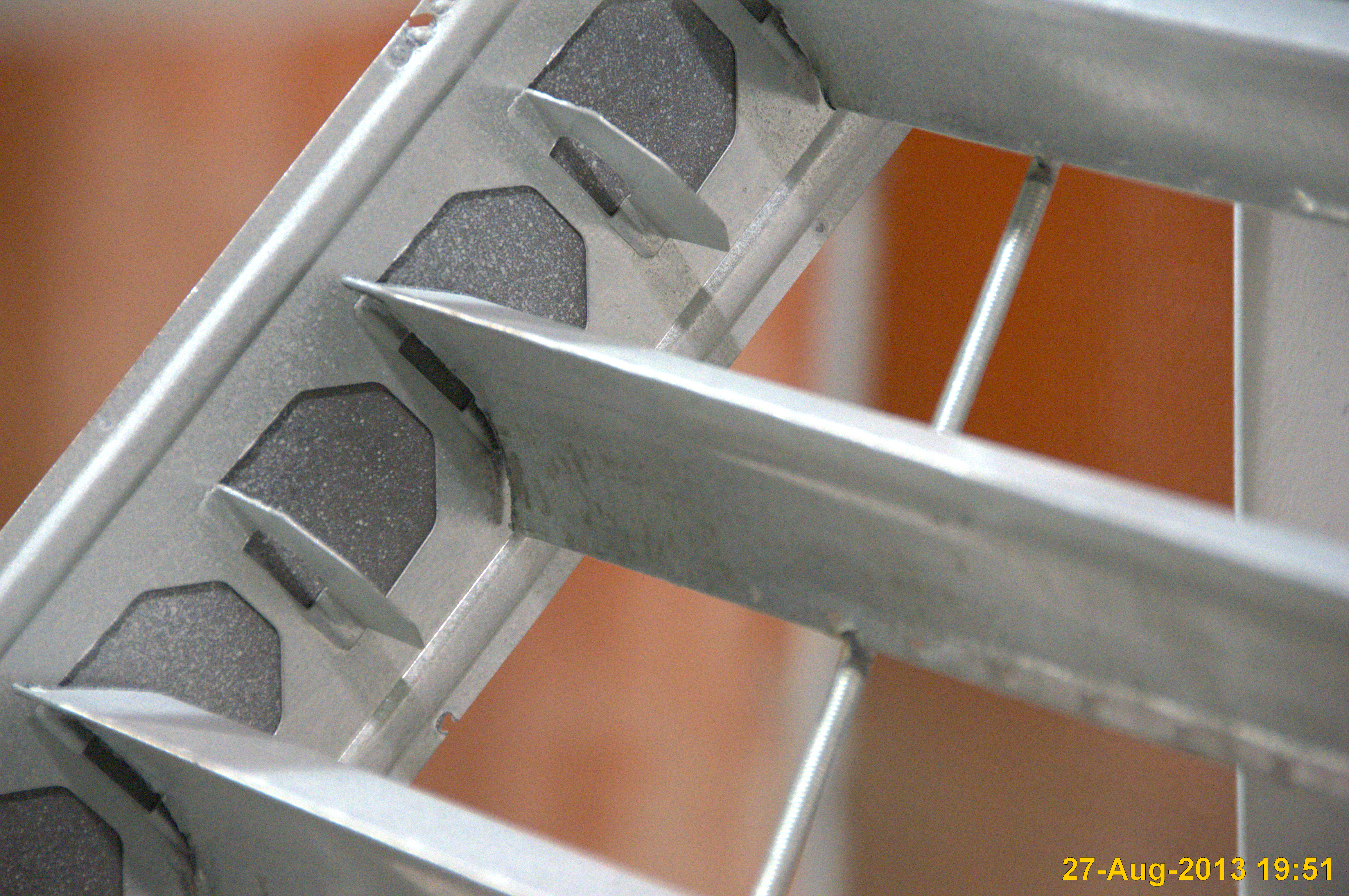 This is one of 6 pictures showing turning vanes inside of Durasteel fire-resistance-rated pressurisation ductwork.